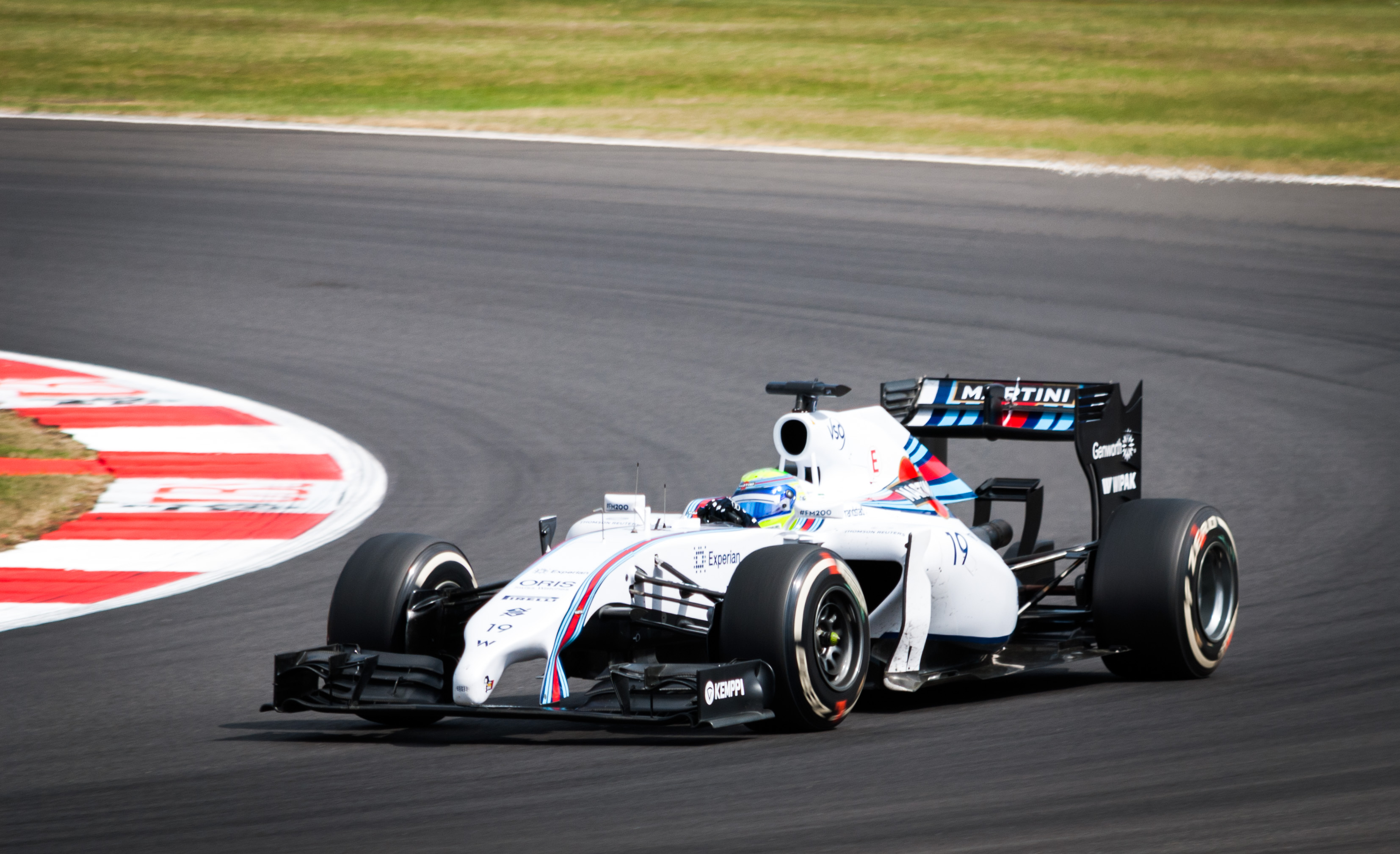 Felipe Massa during Free Practice Two. 2014 British Grand Prix at Silverstone.